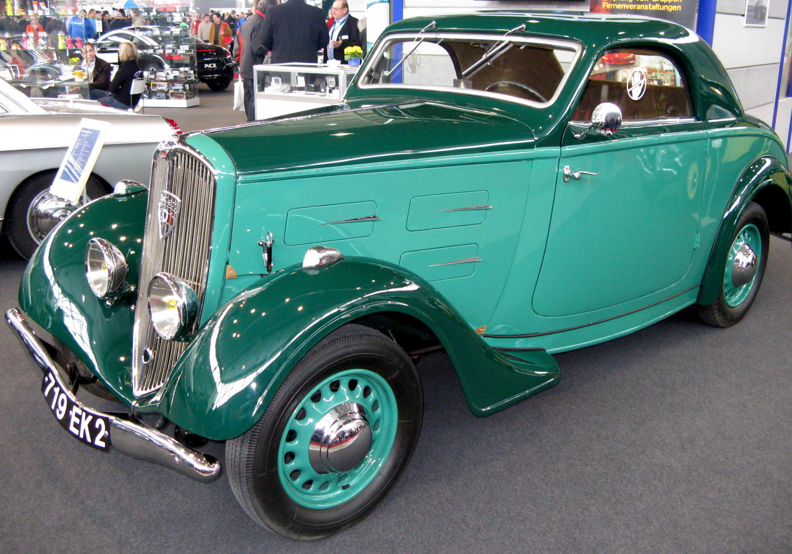 1936 Peugeot 301 D Coupe